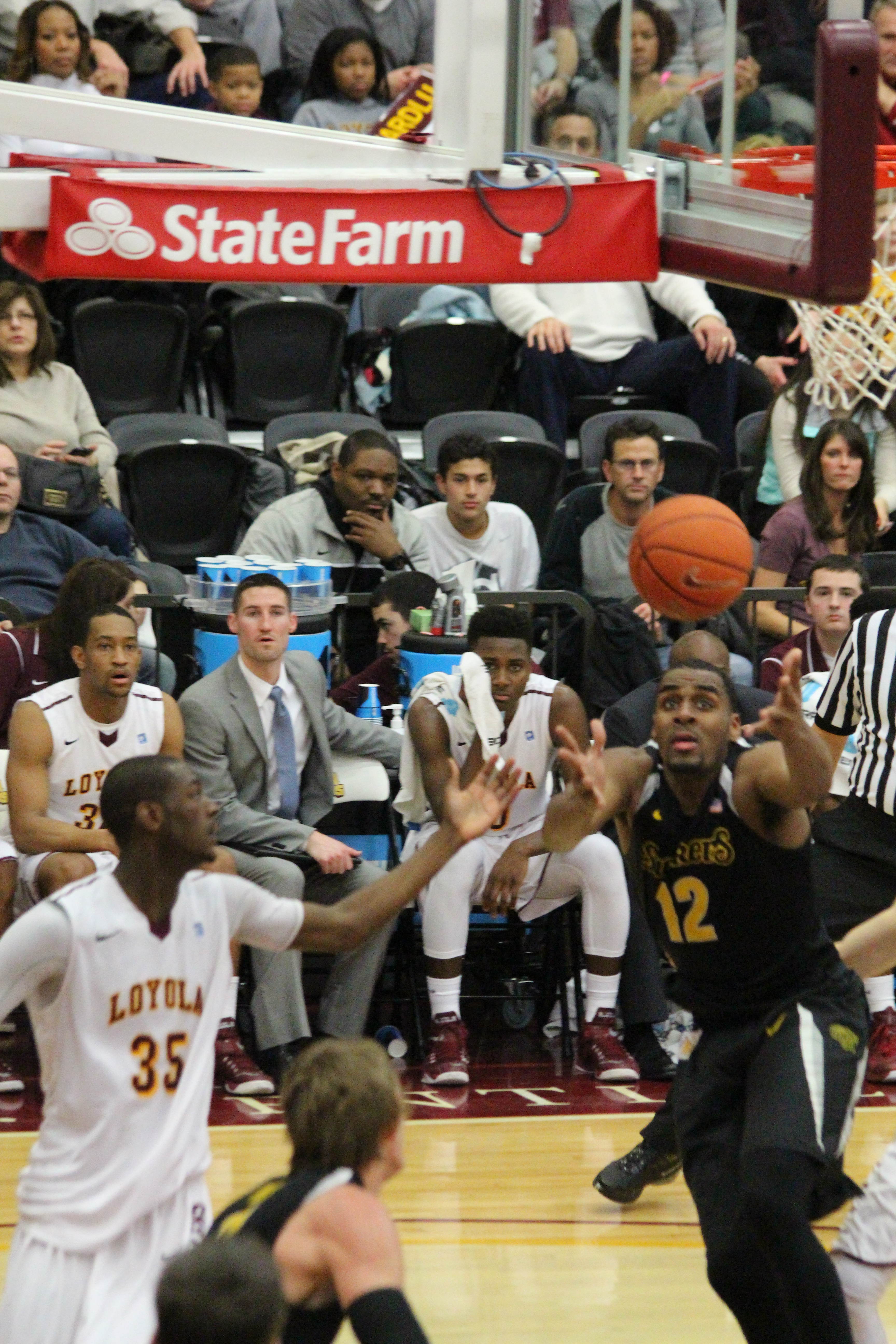 Milton Doyle (#35 white) of w:2014–15 Loyola Ramblers men's basketball team and Darius Carter (#12 black) of w:2014–15 Wichita State Shockers men's basketball team reach for loose ball.